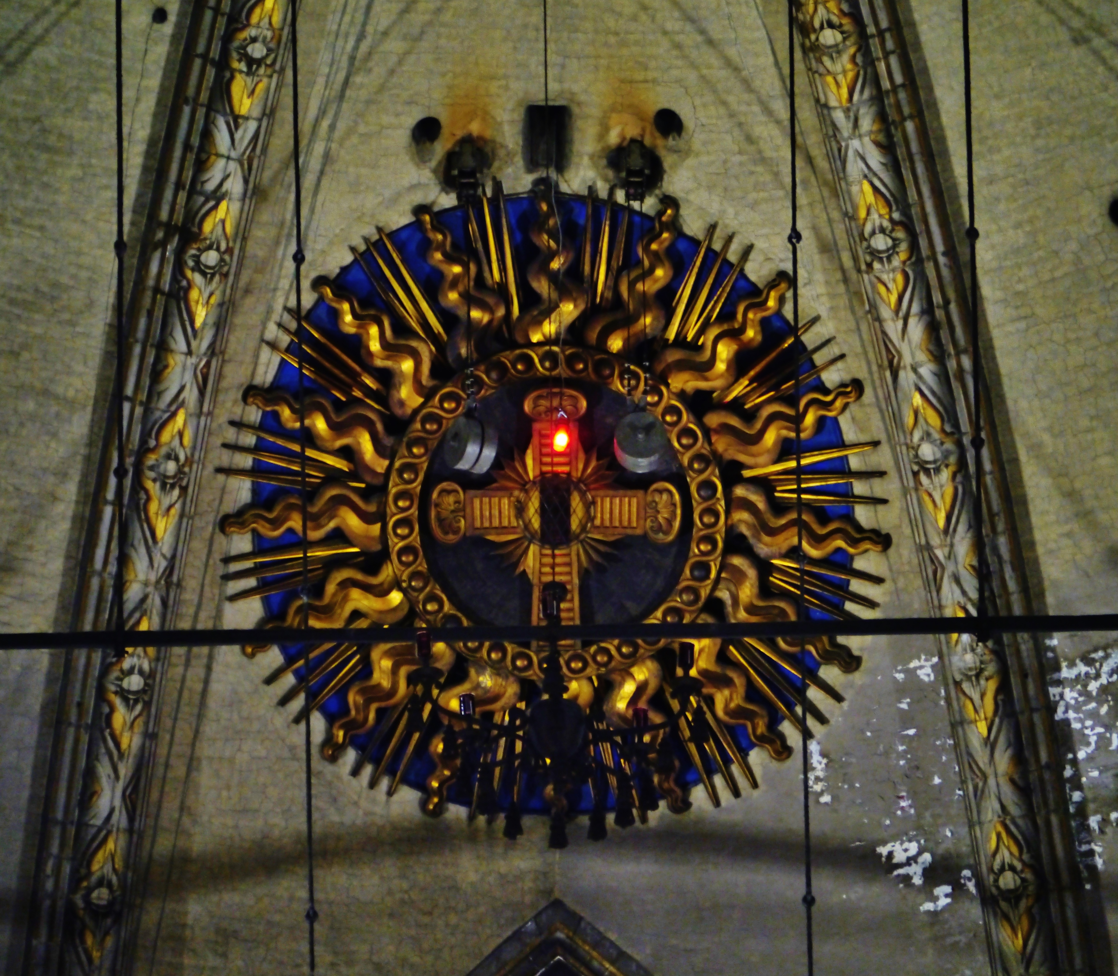 Choir Vault of the Cathedral of the Assumption of St. Mary, Milan, Province of Milan, Region of Lombardy, Italy